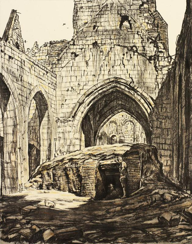 War Drawings by Muirhead Bone- Foucaucourt